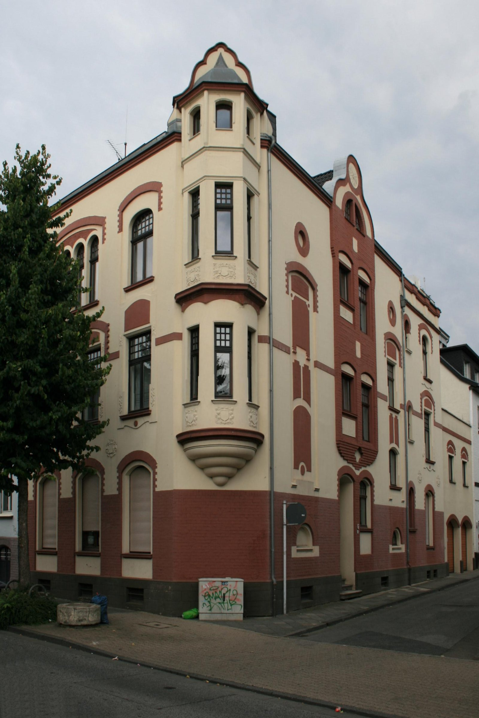 Cultural heritage monument No. K 011 in Mönchengladbach